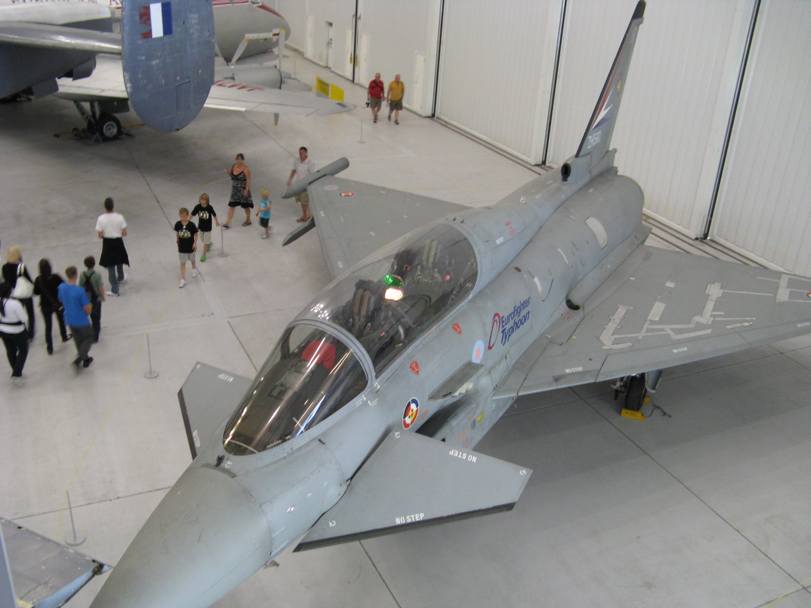 Development aircraft DA4, Imperial War Museum Duxford